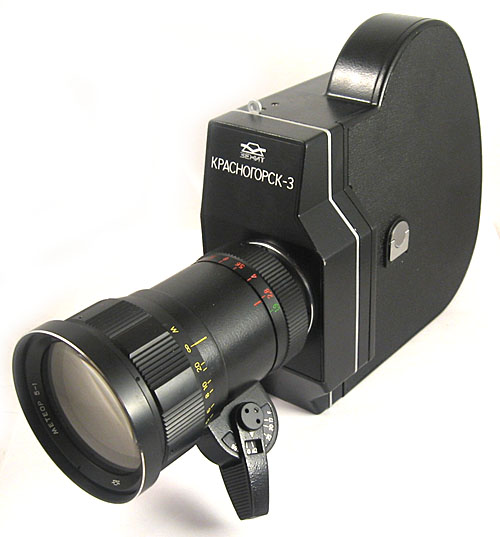 Photo of the Russian Krasnogorsk-3 movie camera.